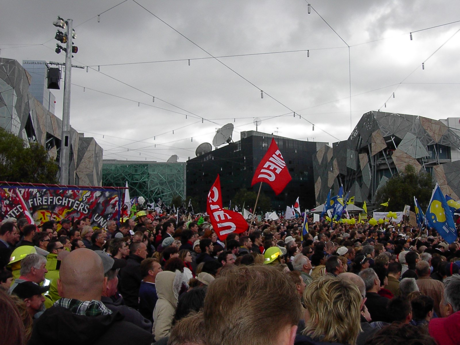 Photo by User:Adam Carr, November 2005